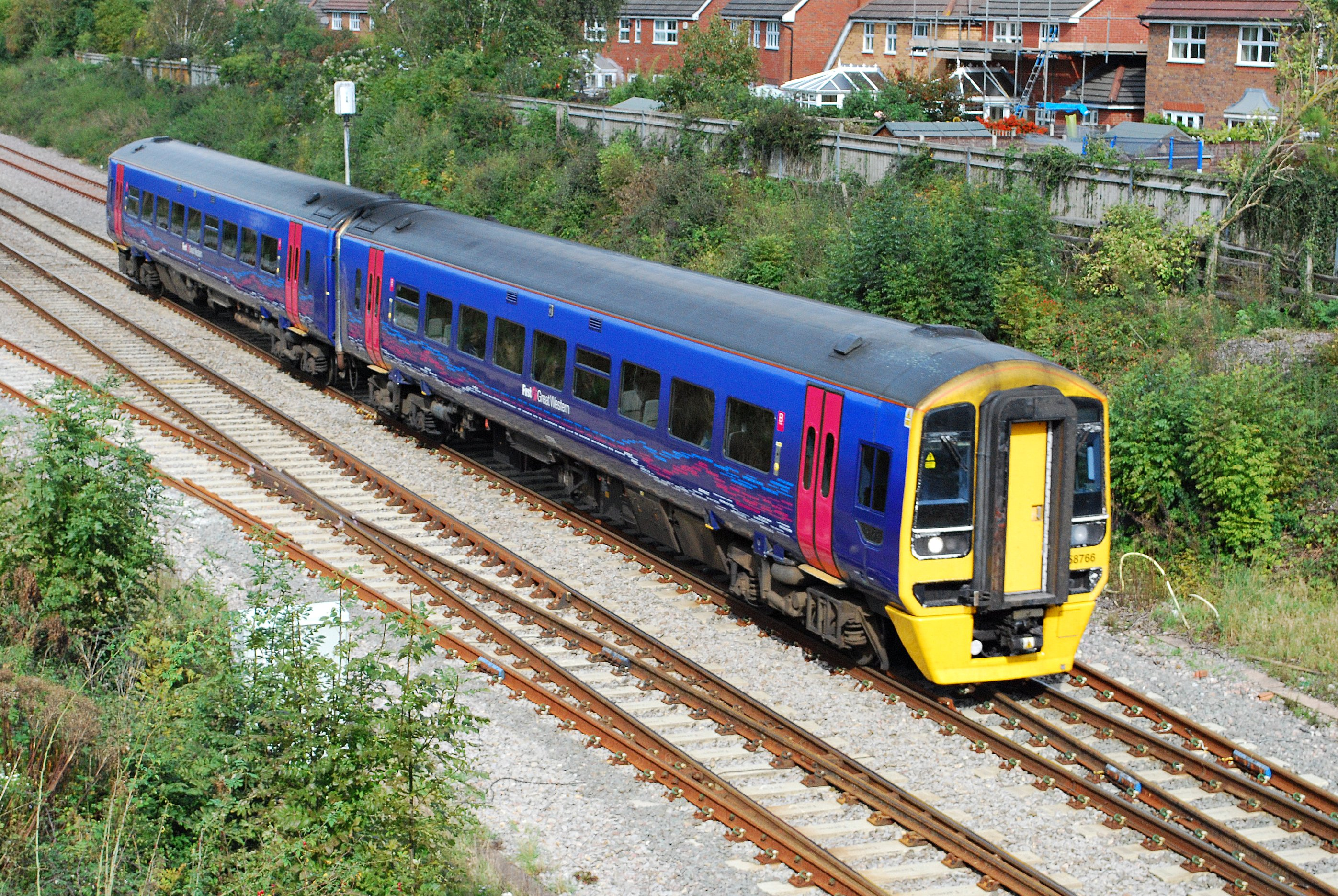 BREL (Derby) Class 158/0 (Cummins 350 hp) "Sprinter Express" Standard Mark III 2-car dmu No.148 766 of First Great Western in their "local lines" livery passing Charfield on a Gloucester - Exeter service, 09/10.